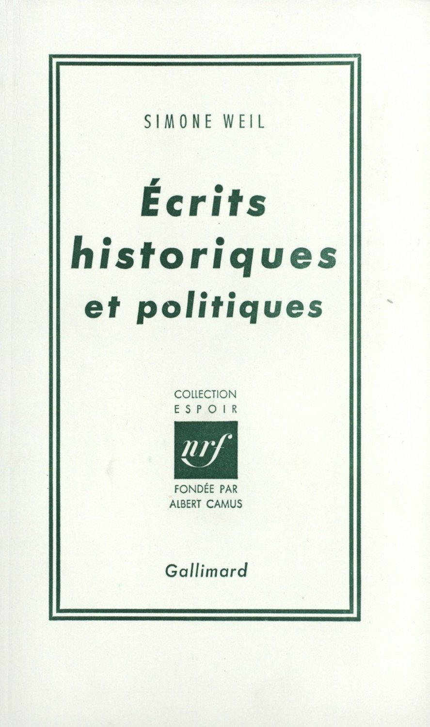 Cover of the first edition of Simone Weil's Écrits historiques et politiques.